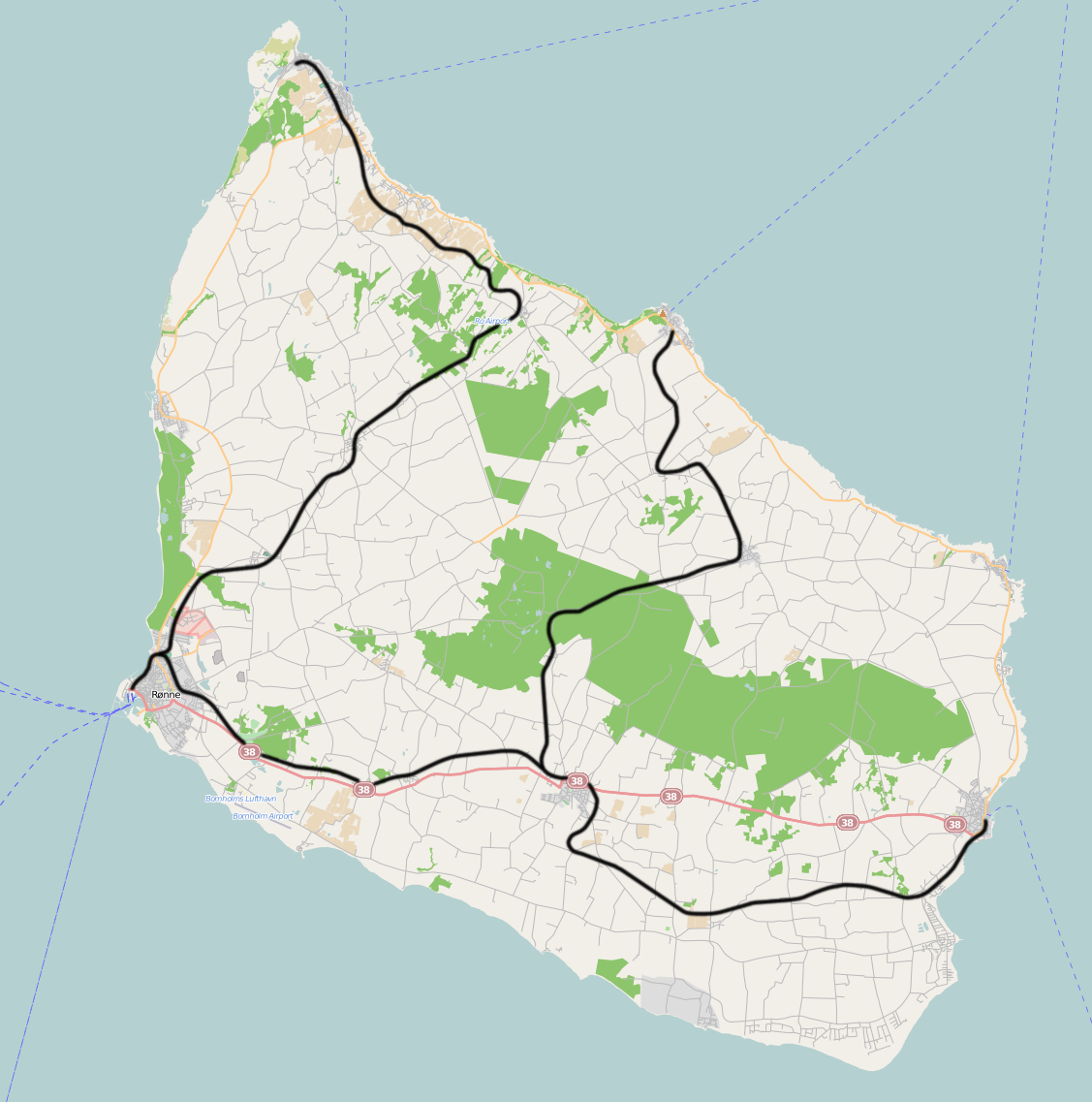 Railway lines on Bornholm